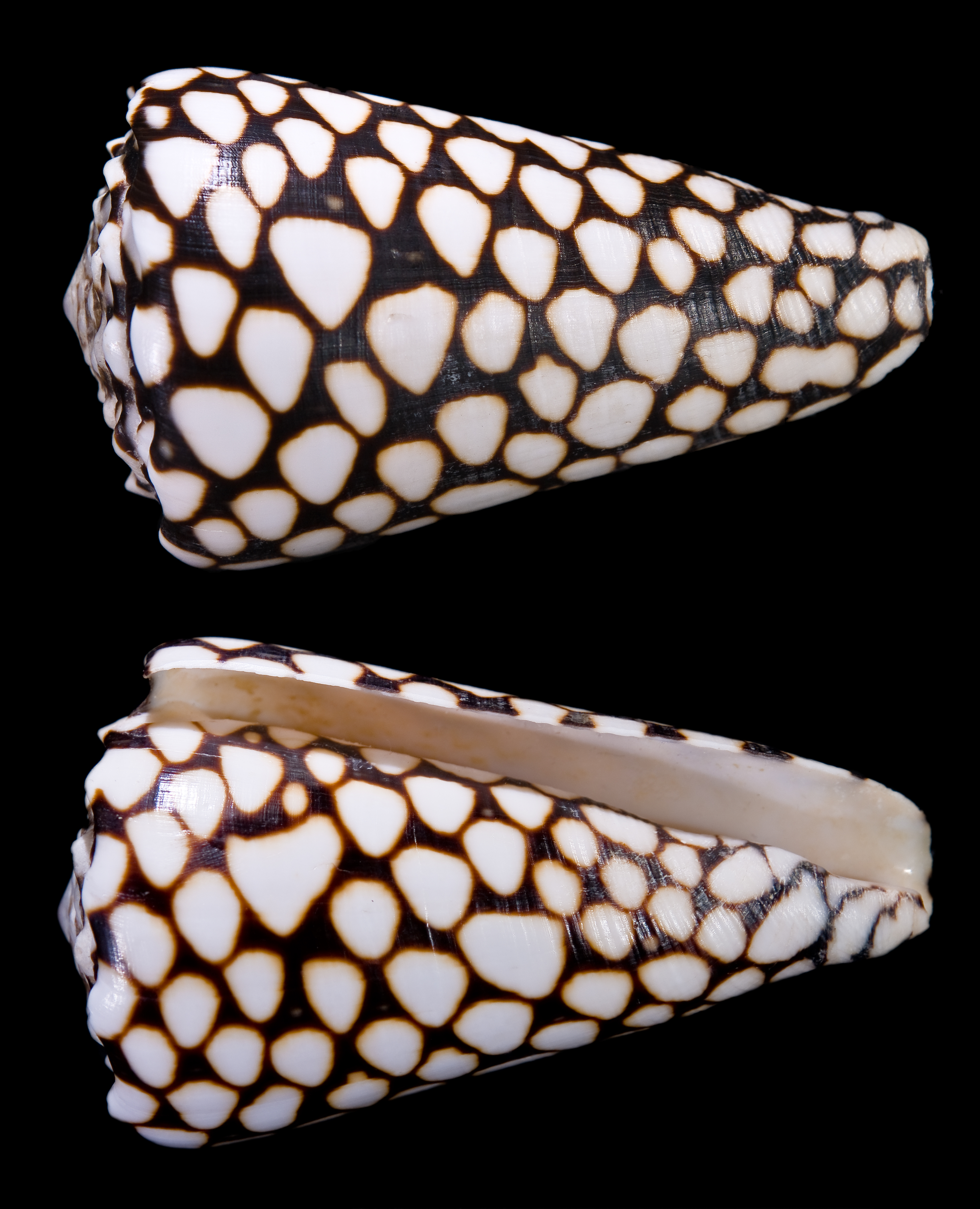 Conus marmoreus - Conidae - Cebu Island Philippines - 7cm